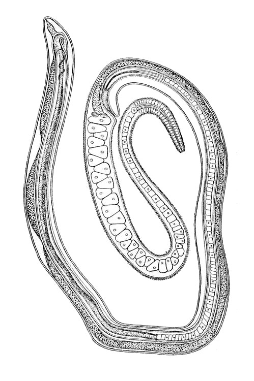 Nematode Trichosomoides crassicauda (Nematoda: Trichosomoididae). A female specimen with a male in vagina.